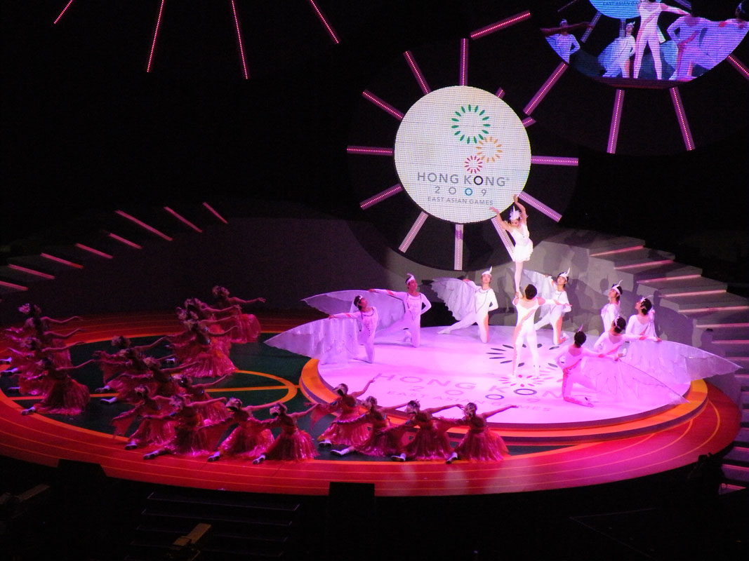 2009 East Asian Games Closing Ceremony - Tientsin showtime